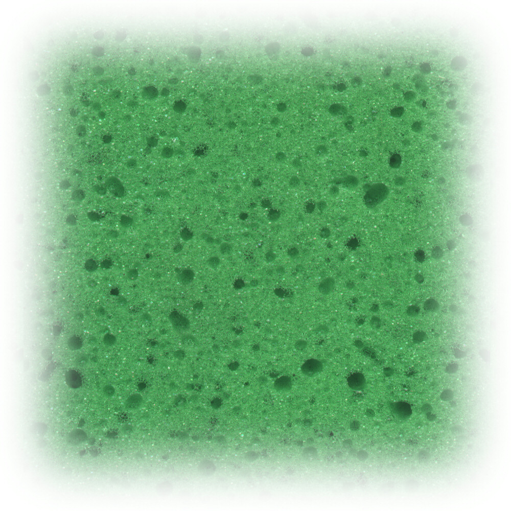 Handmade sponge